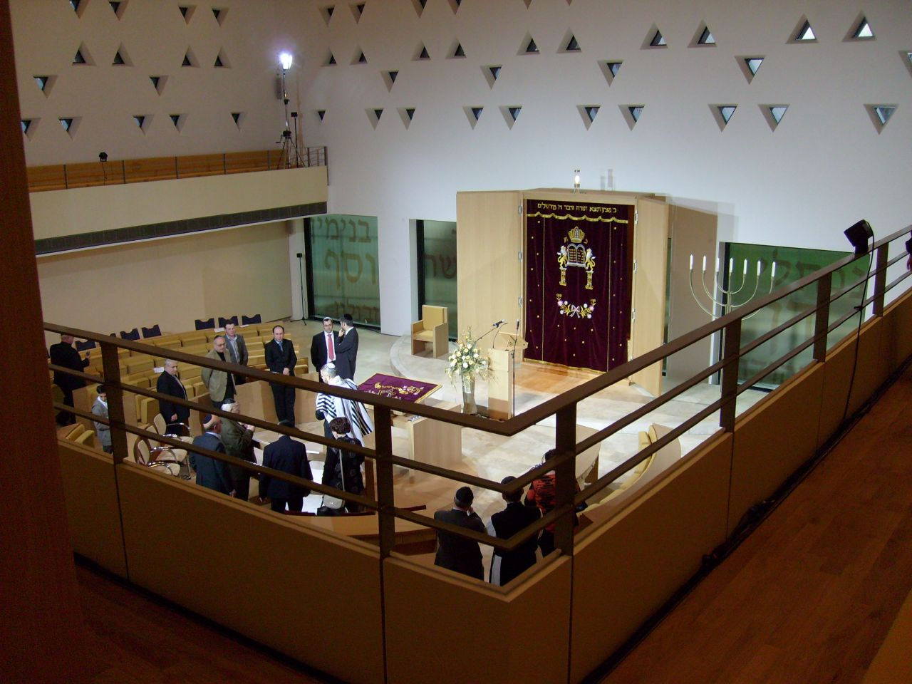 Dedication of the new synagogue, Bochum, interior